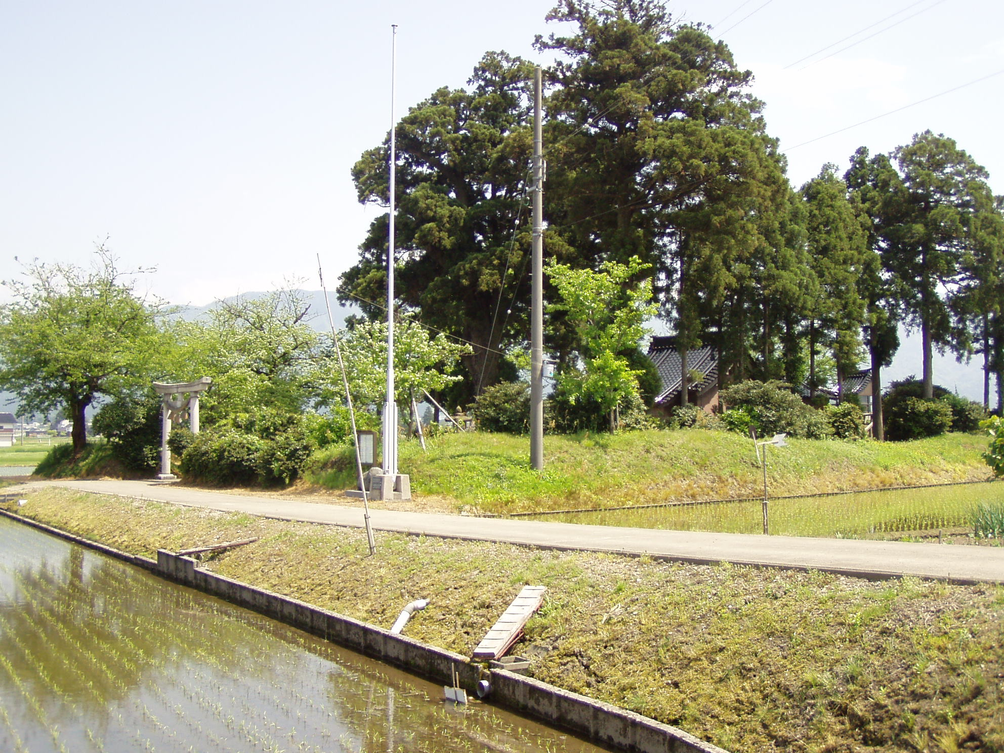 Munemori Castle（Toyama-Japan）